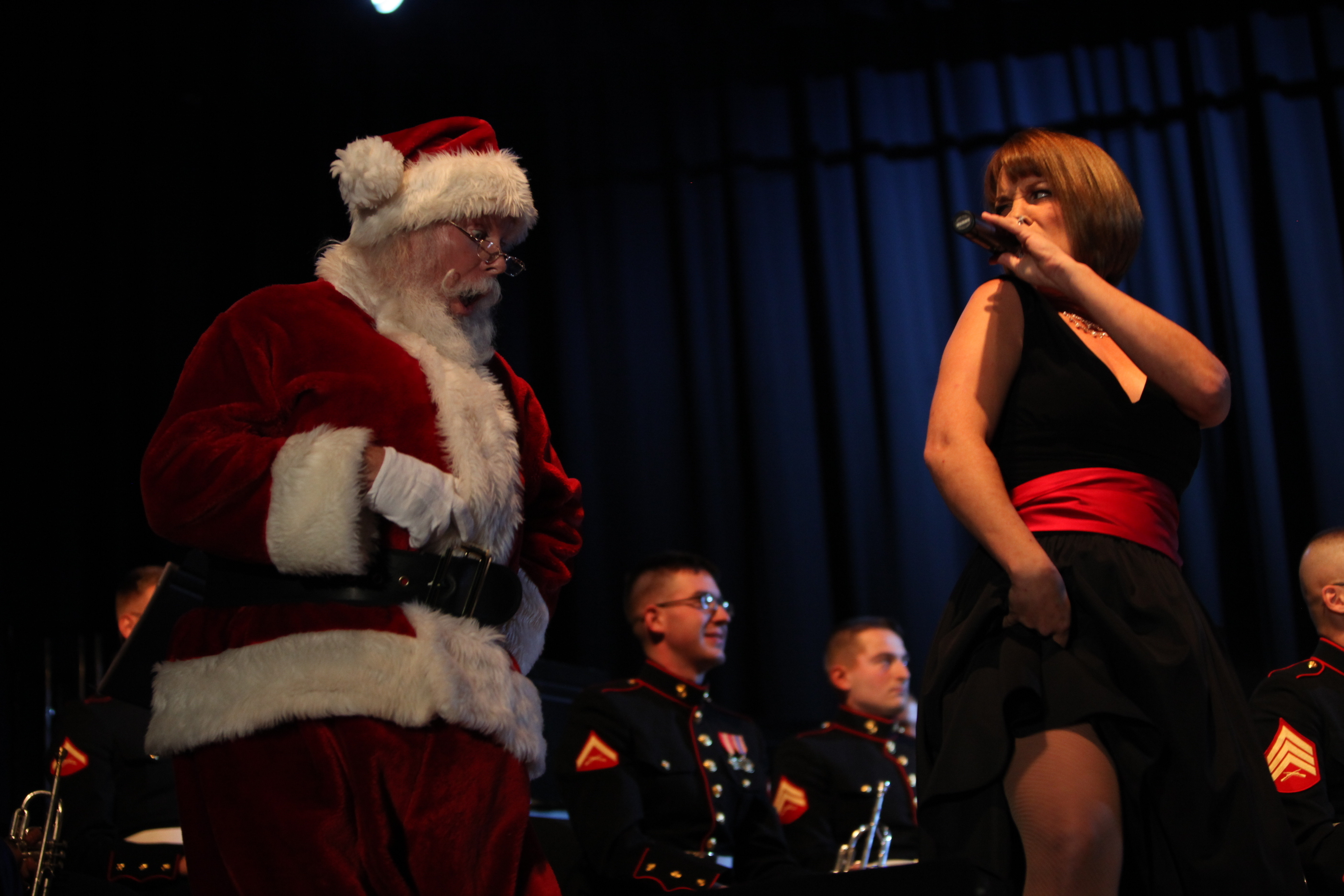 Abby Gore tempts Santa Claus during a rendition of “Santa Baby” at the 2010 Christmas concert presented by the 2nd Marine Aircraft Wing Band at the station theater Friday. Gore leant her voice to the band’s spirited, exciting performance that evoked feelings of the Christmas season for young and old featuring timeless Christmas songs such as “Santa Baby” by Joan Javits, “My Favorite Things” by Richard Rodgers and Oscar Hammerstein II, and “White Christmas” by Irving Berlin. Unit: II Marine Expeditionary Force